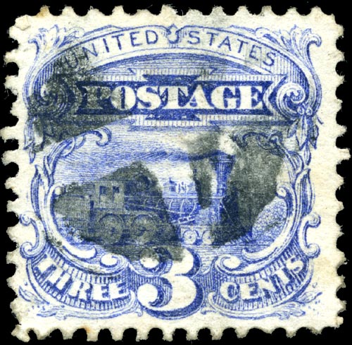 United States 3-cent postage stamp of 1869